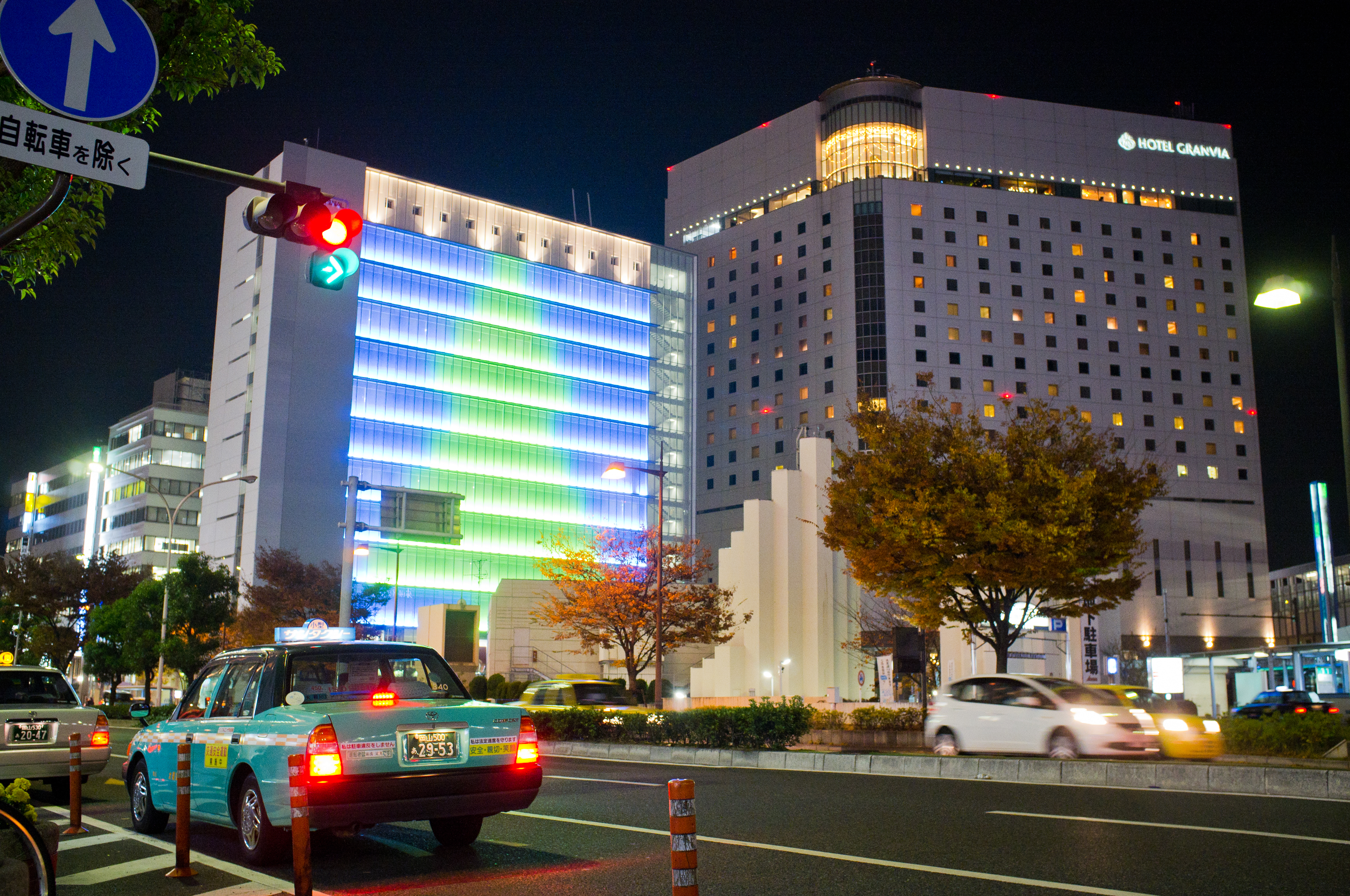 X100 "Japanese city at night" blog(JP):PhoTones [1] [2]